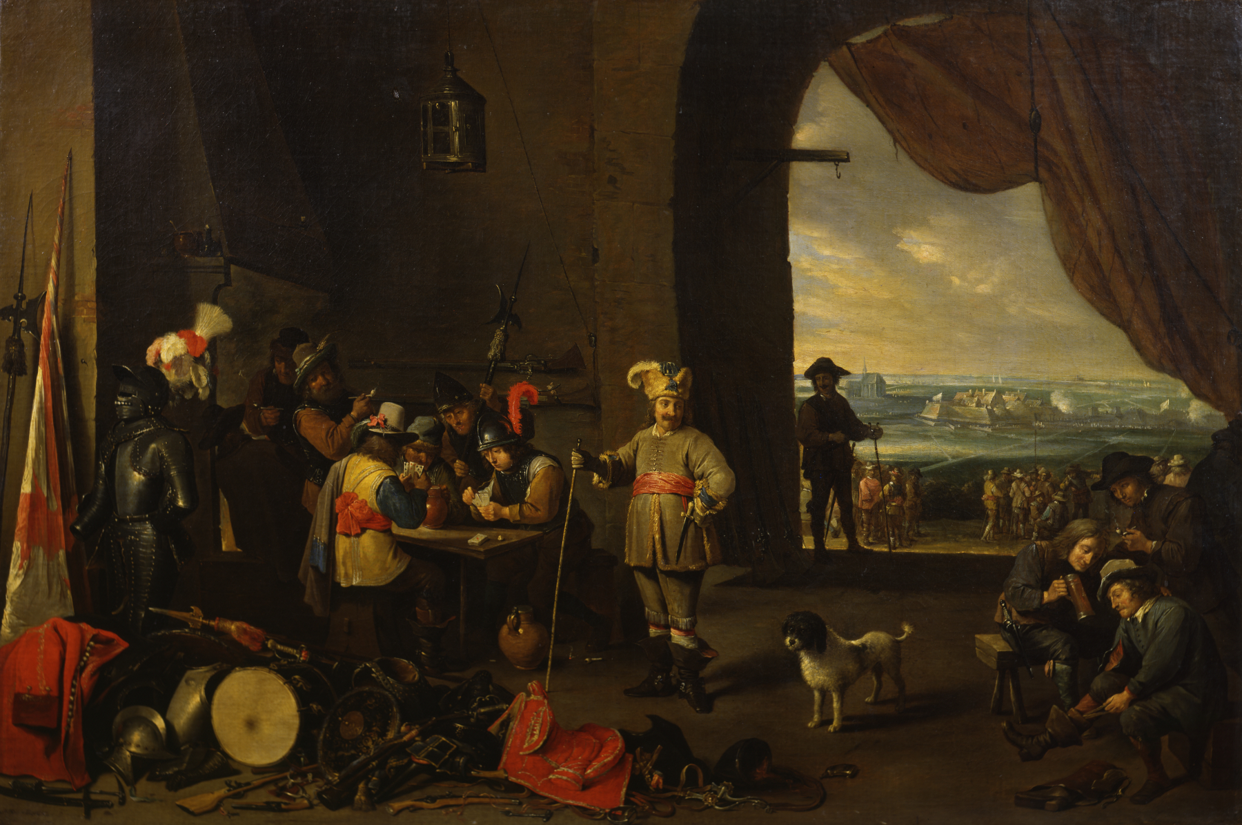 In the 1640s, at the end of the Thirty Years War (1618-48) pitting Protestants against Catholics, military life was a popular subject for art. Teniers represents a guard room, where soldiers passed their time between engagements. The armor and weapons on the floor or leaning against the wall are those of ordinary soldiers, not officers. The officer's clothing identifies him as from Poland or Hungary, both countries allied with the Habsburgs. A version of this painting, signed and dated 1642, is in The Hermitage Museum, St. Petersburg.